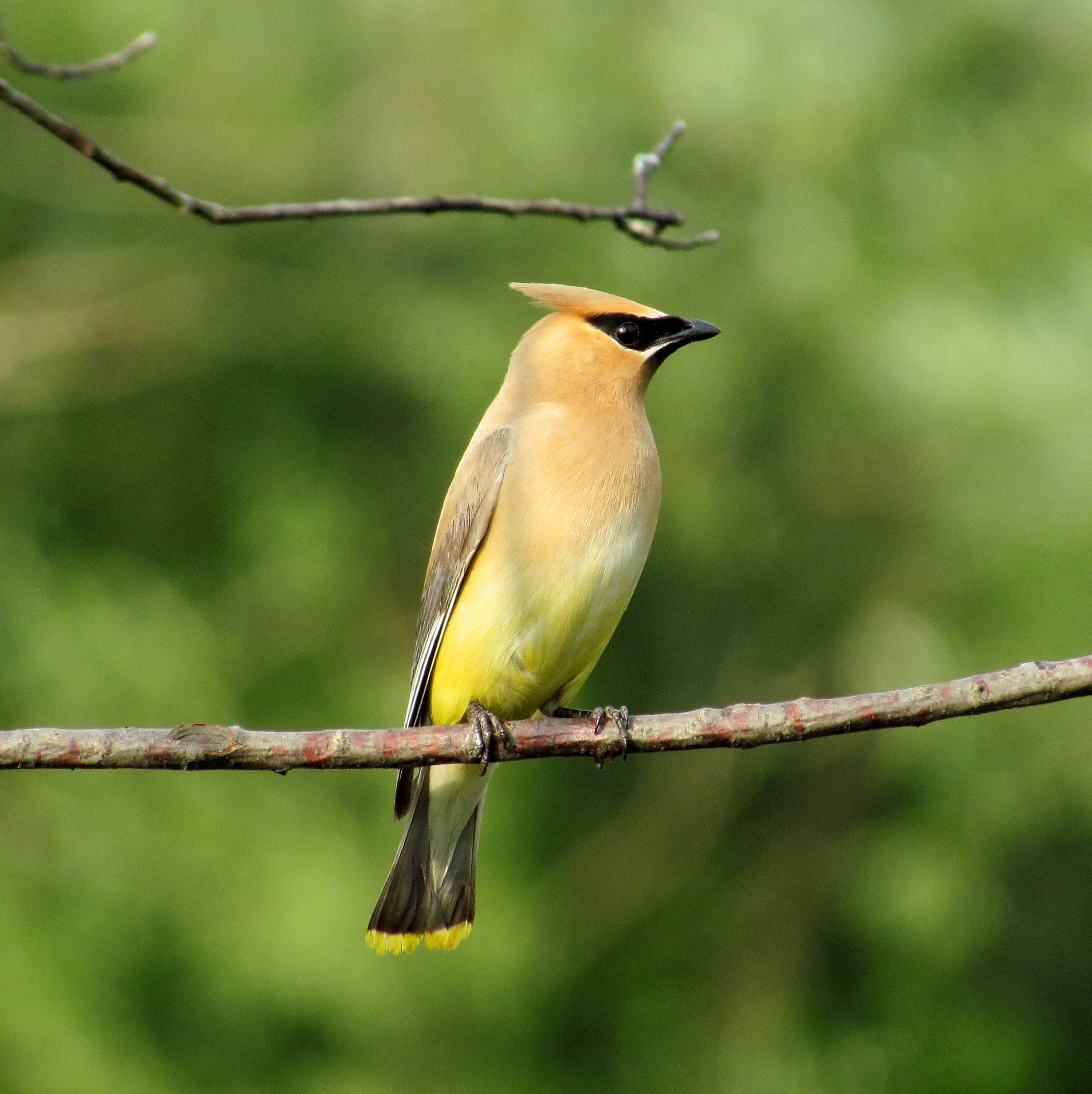 A Cedar Waxwing sitting on a branch. Taken at Carlton Drake Memorial Park in Newfoundland, Pennsylvania.